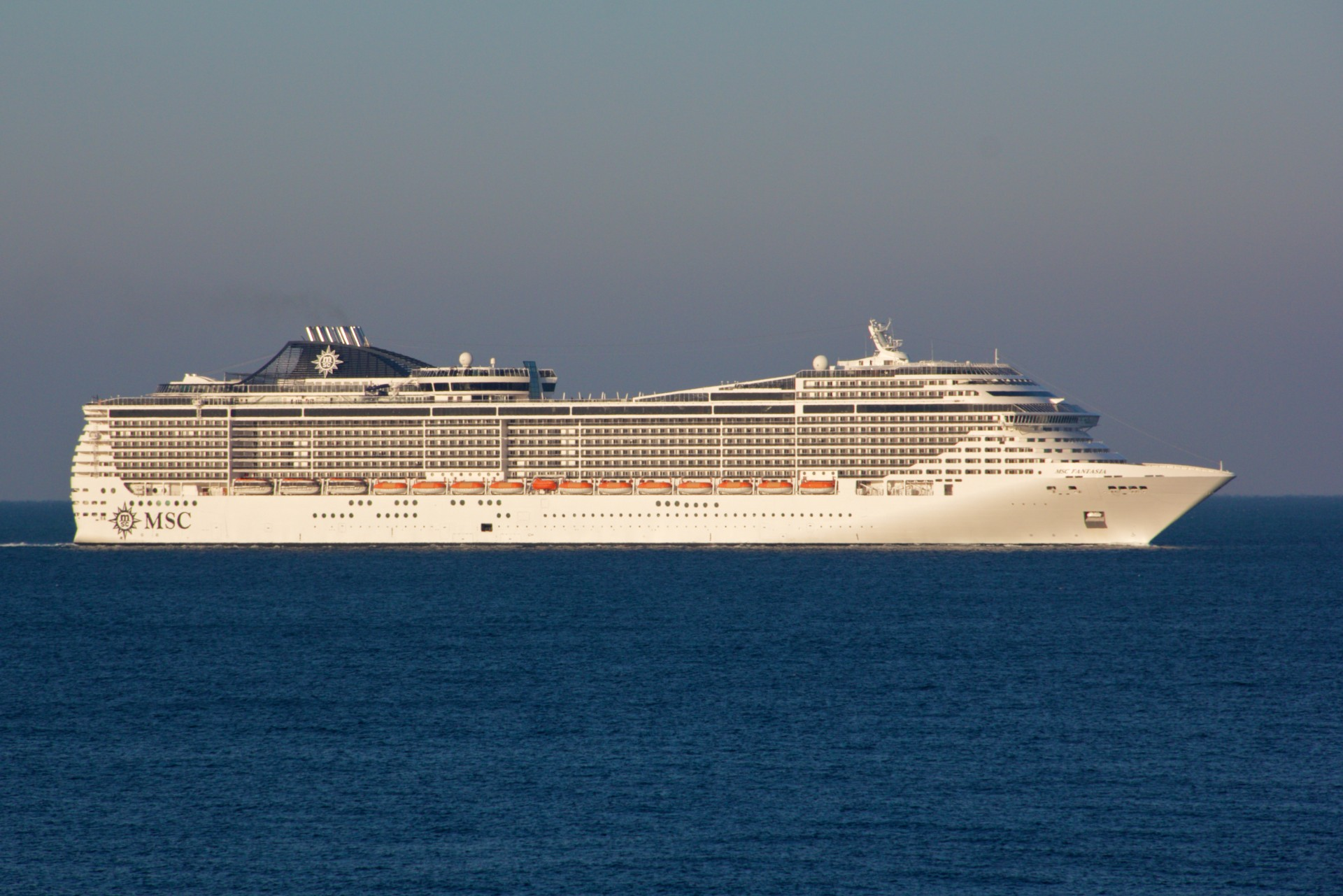 "MSC Fantasia" entering harbour of Civitavecchia (Italy)